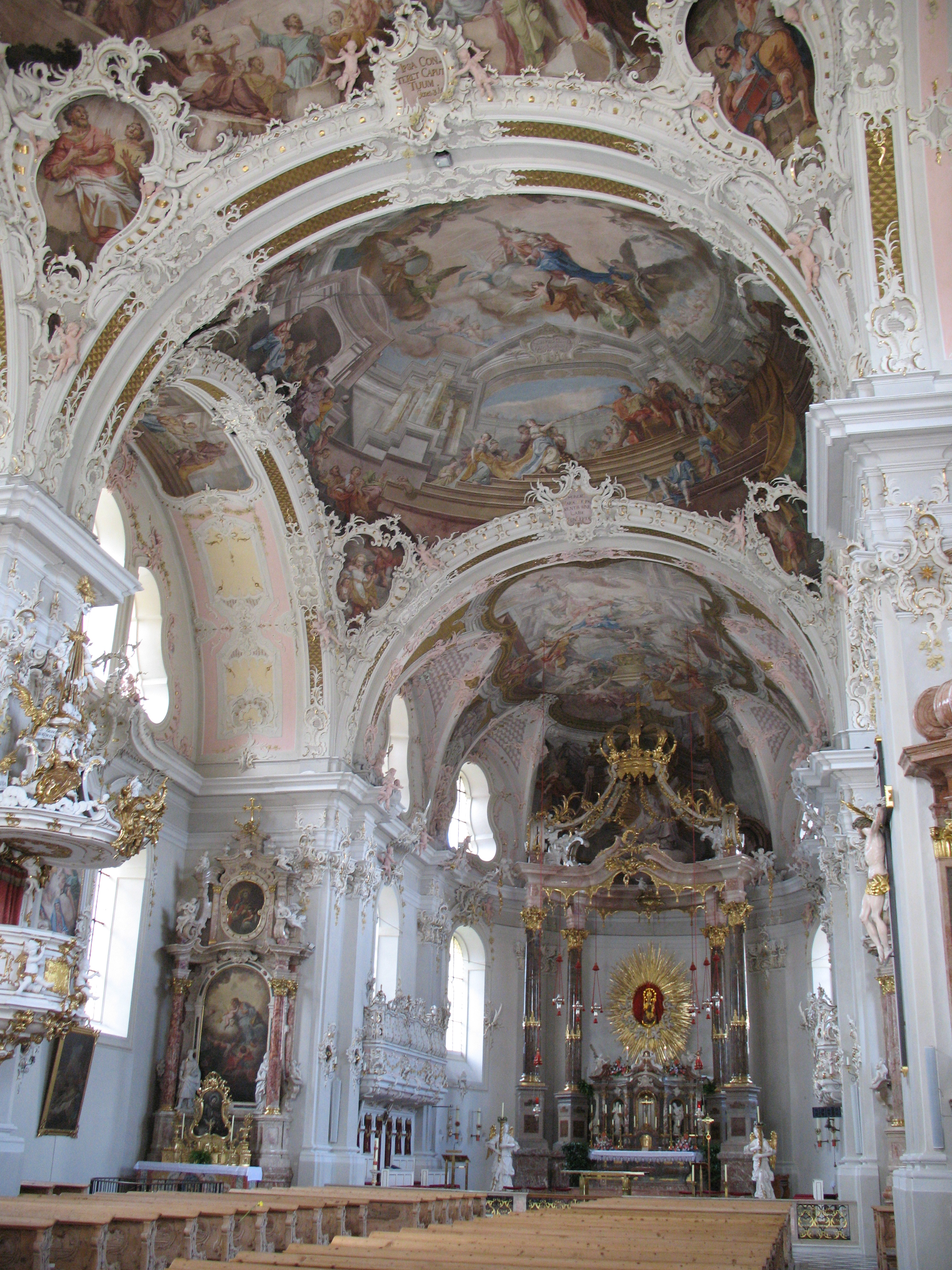 Basilica of Wilten, Innsbruck, Austria